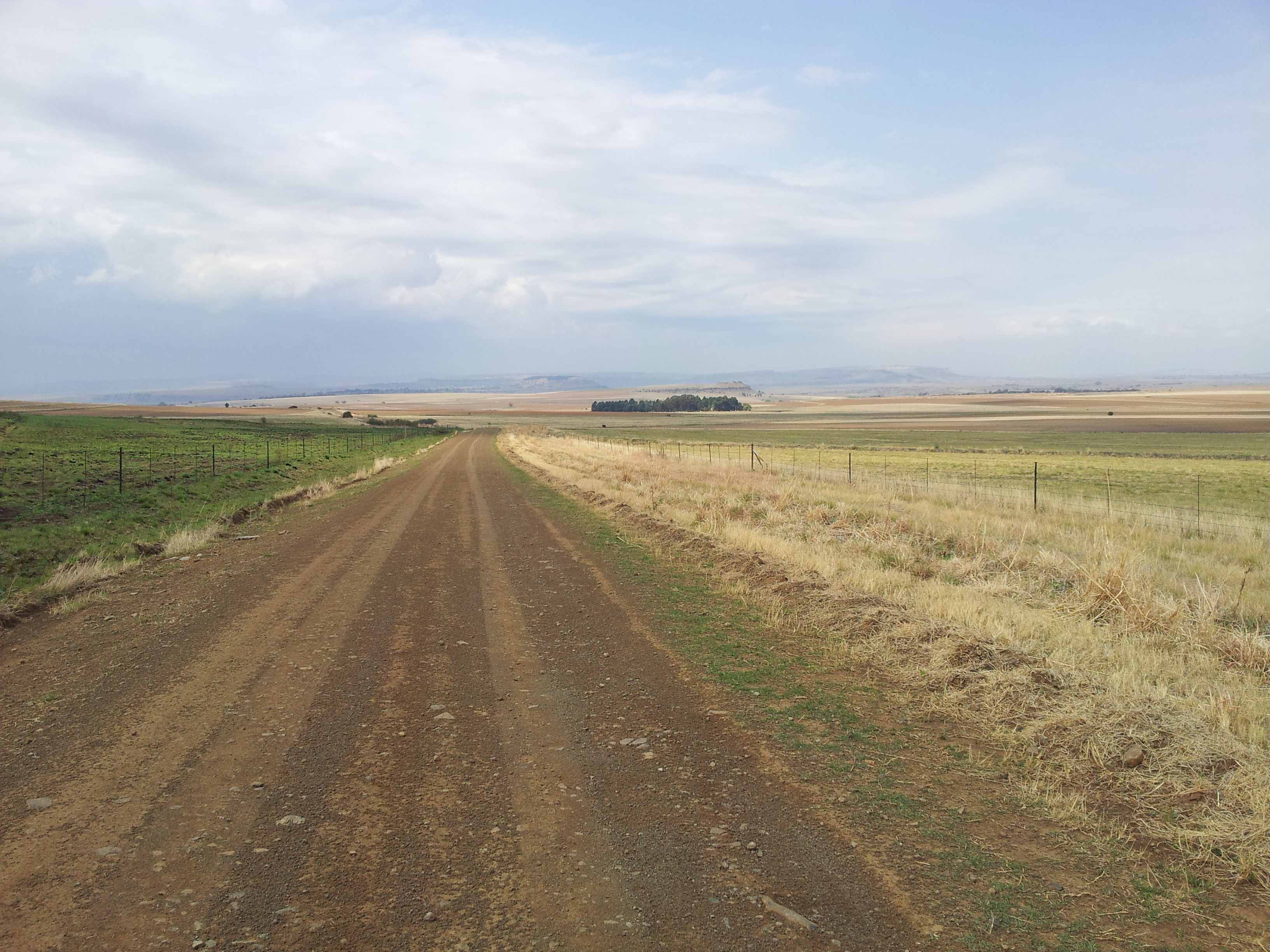 The road towards Peka Bridge on the South African Side.